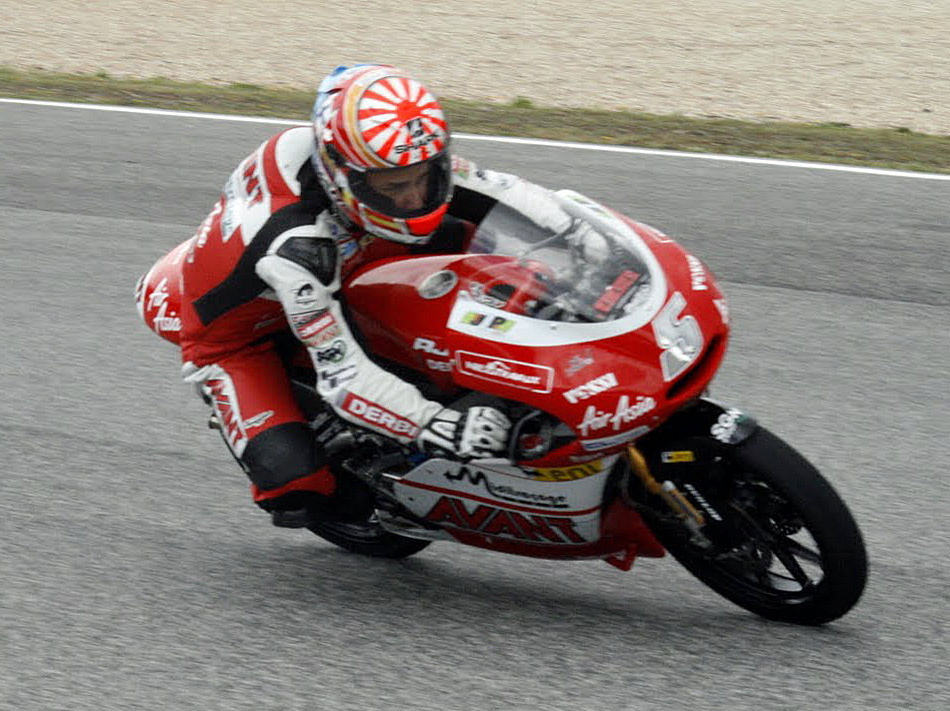 Johann Zarco 2011 Estoril